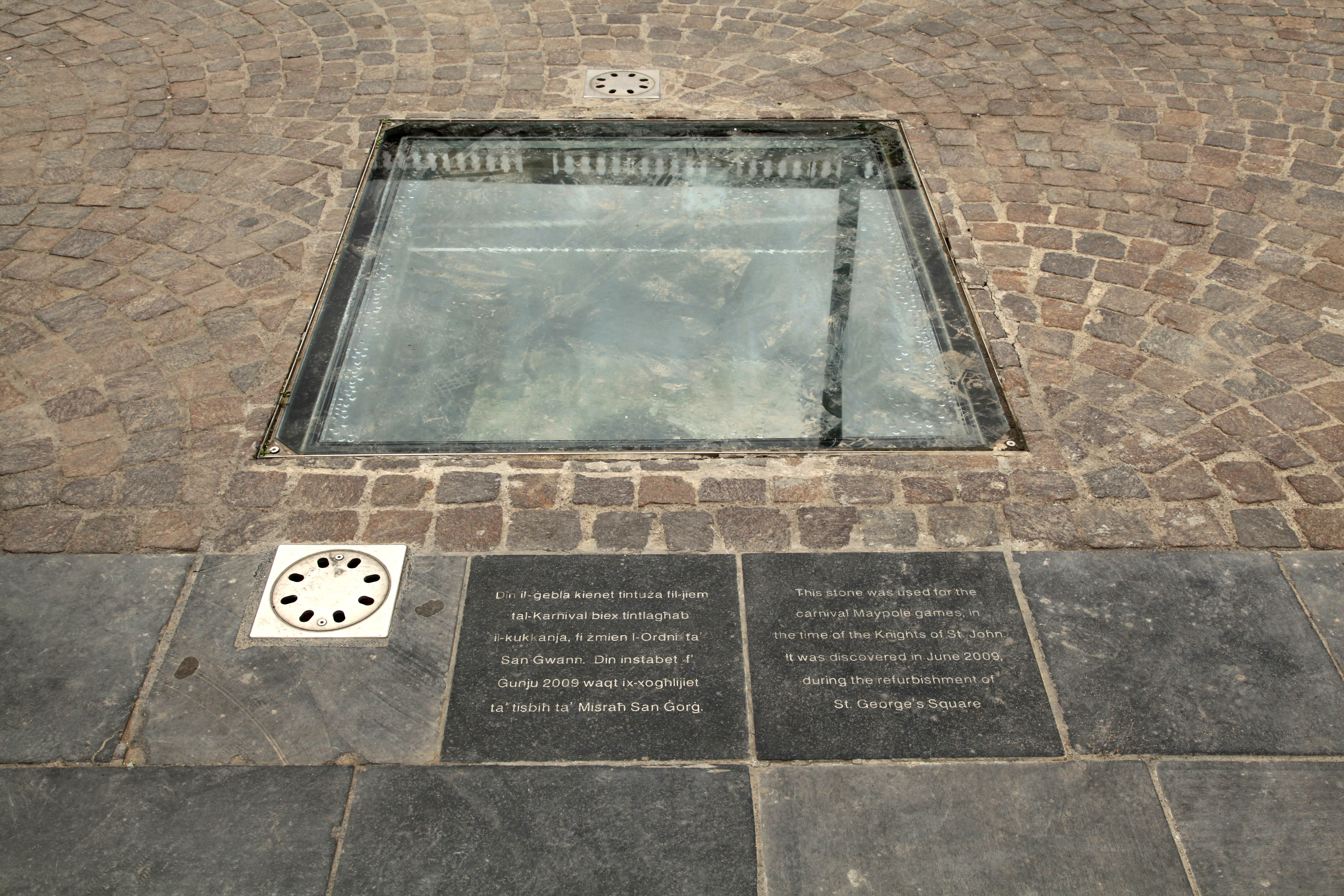 Misraħ San Ġorġ, Triq ir-Repubblika in Valletta, Malta